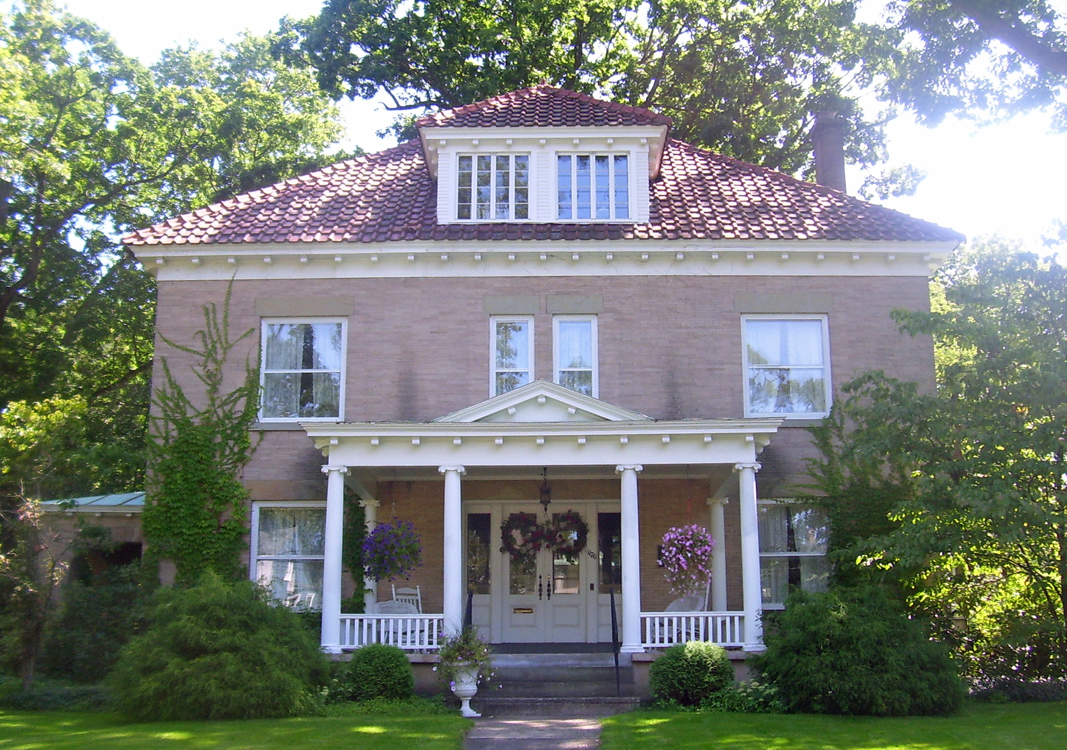 Home of 1932 Chemistry Nobel laureate Irving Langmuir in Schenectady, NY, USA